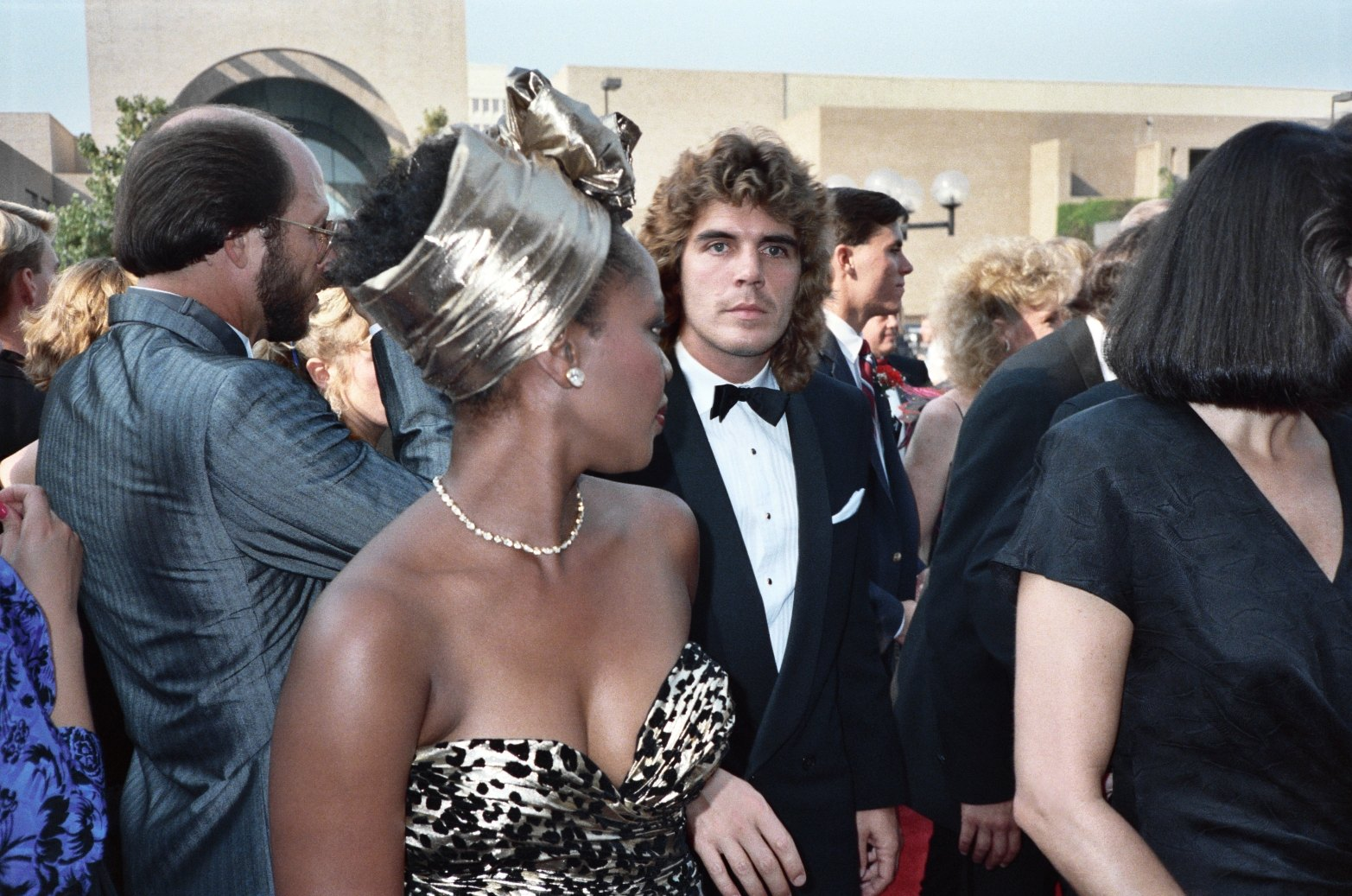 Alfre Woodard at the 1987 Emmy Awards. Scanned from the original 35MM film negative.